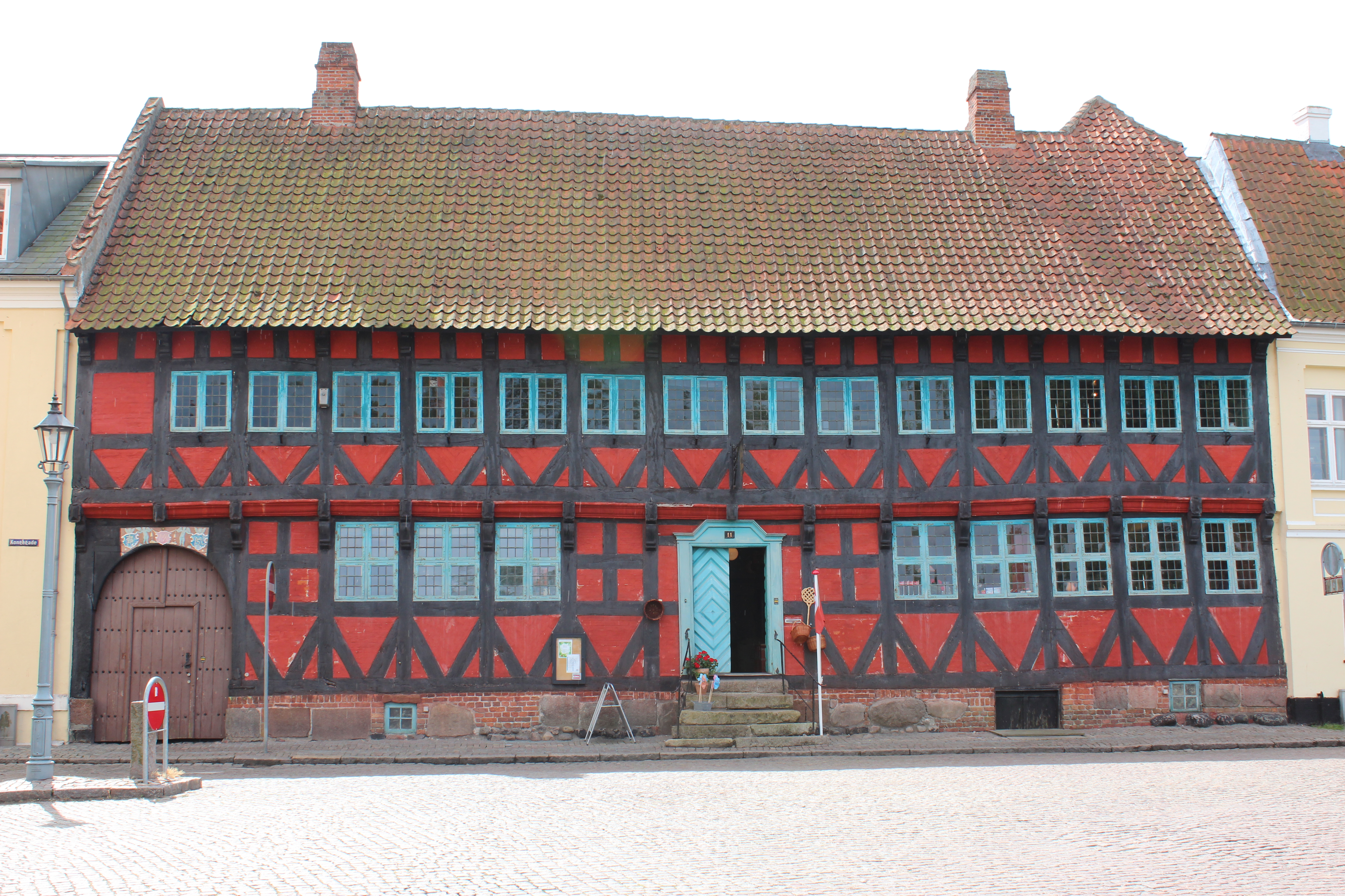 City museum called Borgmestergården in Mads Lerches Gård, Nyborg